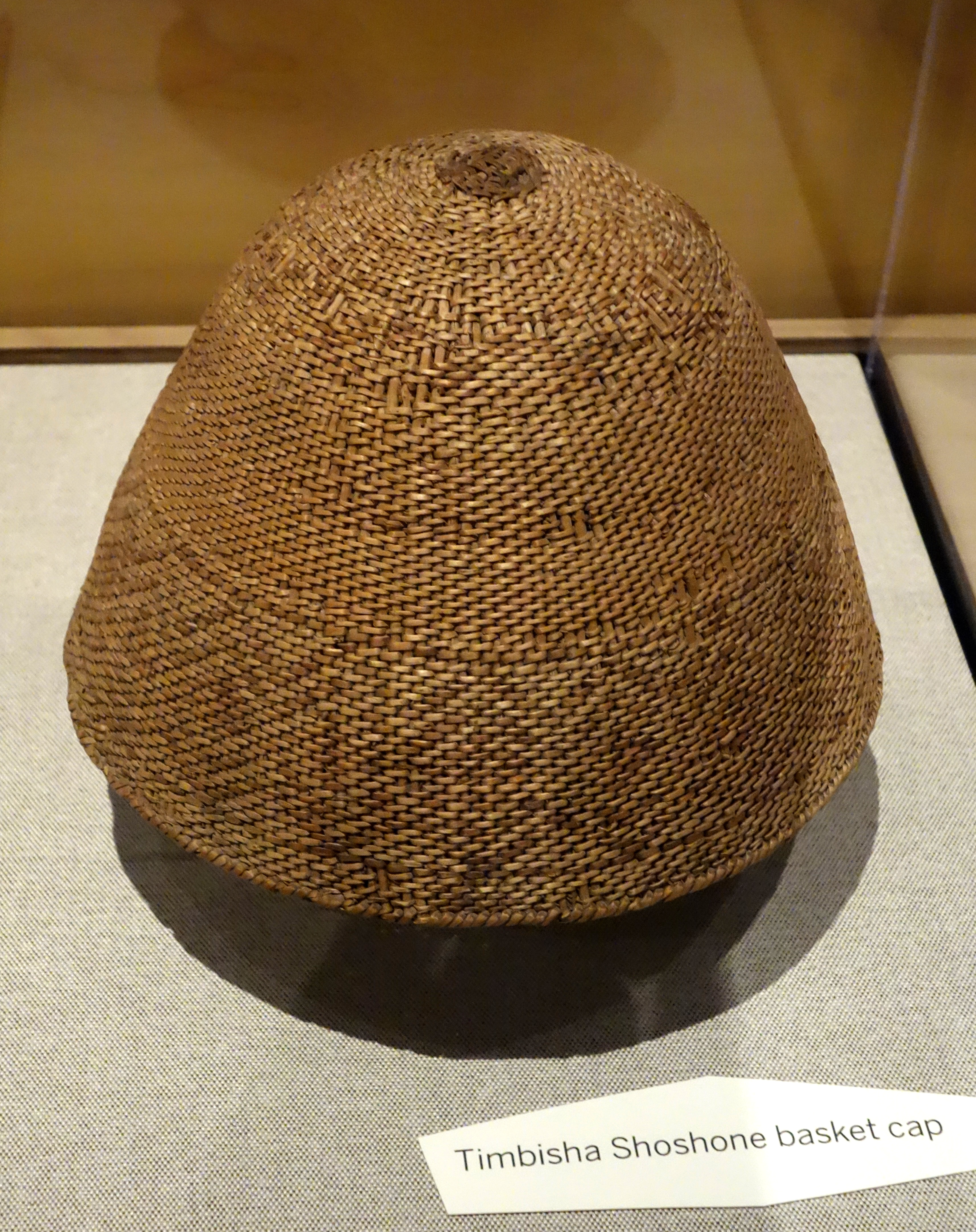 Exhibit in the Oakland Museum of California, Oakland, California, USA. This work is in the public domain because its maker died more than 70 years ago.